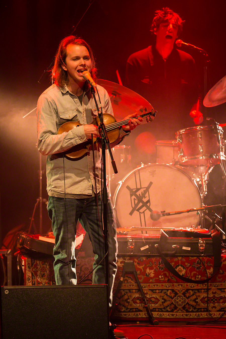 'Valkyrien Allstars' is performing at Cosmopolite in Oslo. Band members: Tuva Syvertsen (violin, Hardanger fiddle, vocal), Erik Sollid (violin, Hardanger fiddle, mandolin, vocal), Magnus Larsen (double bass), Martin Langlie (drums).